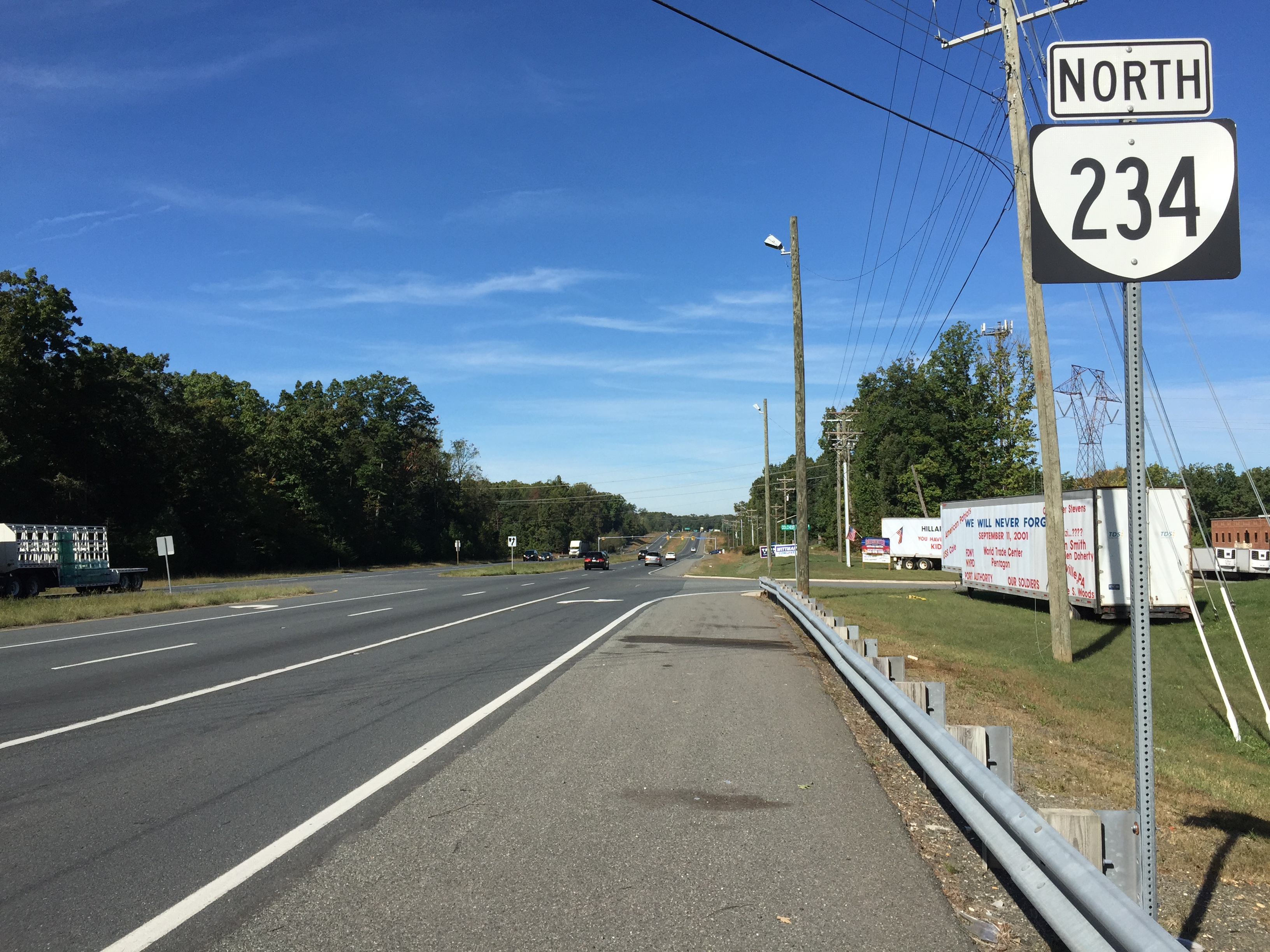 View north along Virginia State Route 234 (Dumfries Road) at Colchester Park Drive in Independent Hill, Prince William County, Virginia